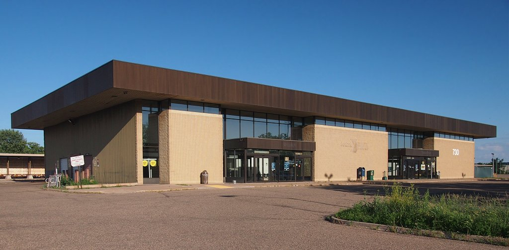 Midway Station, 730 Transfer Road, St Paul, Minnesota, USA. Viewed from the northwest.